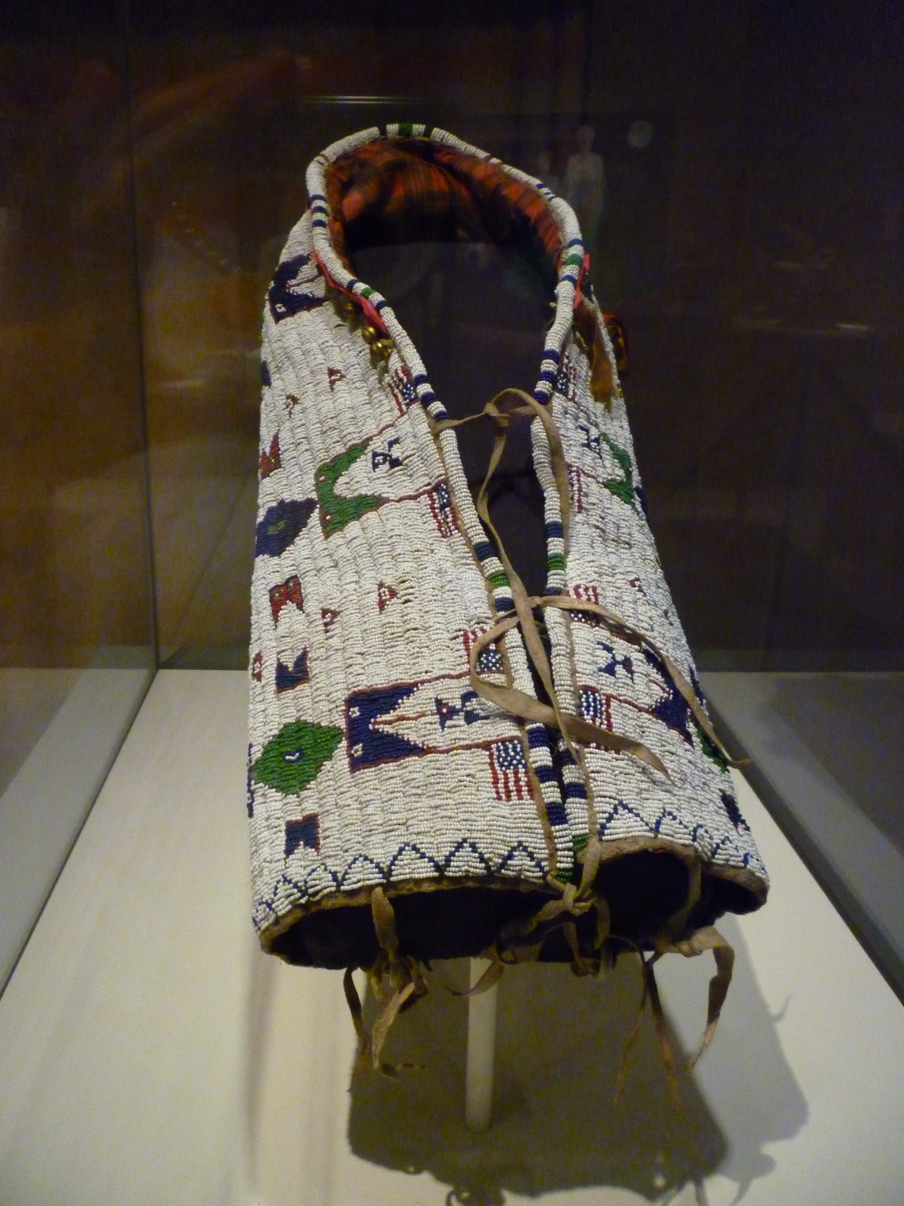 Sioux baby carrier. Glass beads, leather, brass, silk. Great Plains, USA.